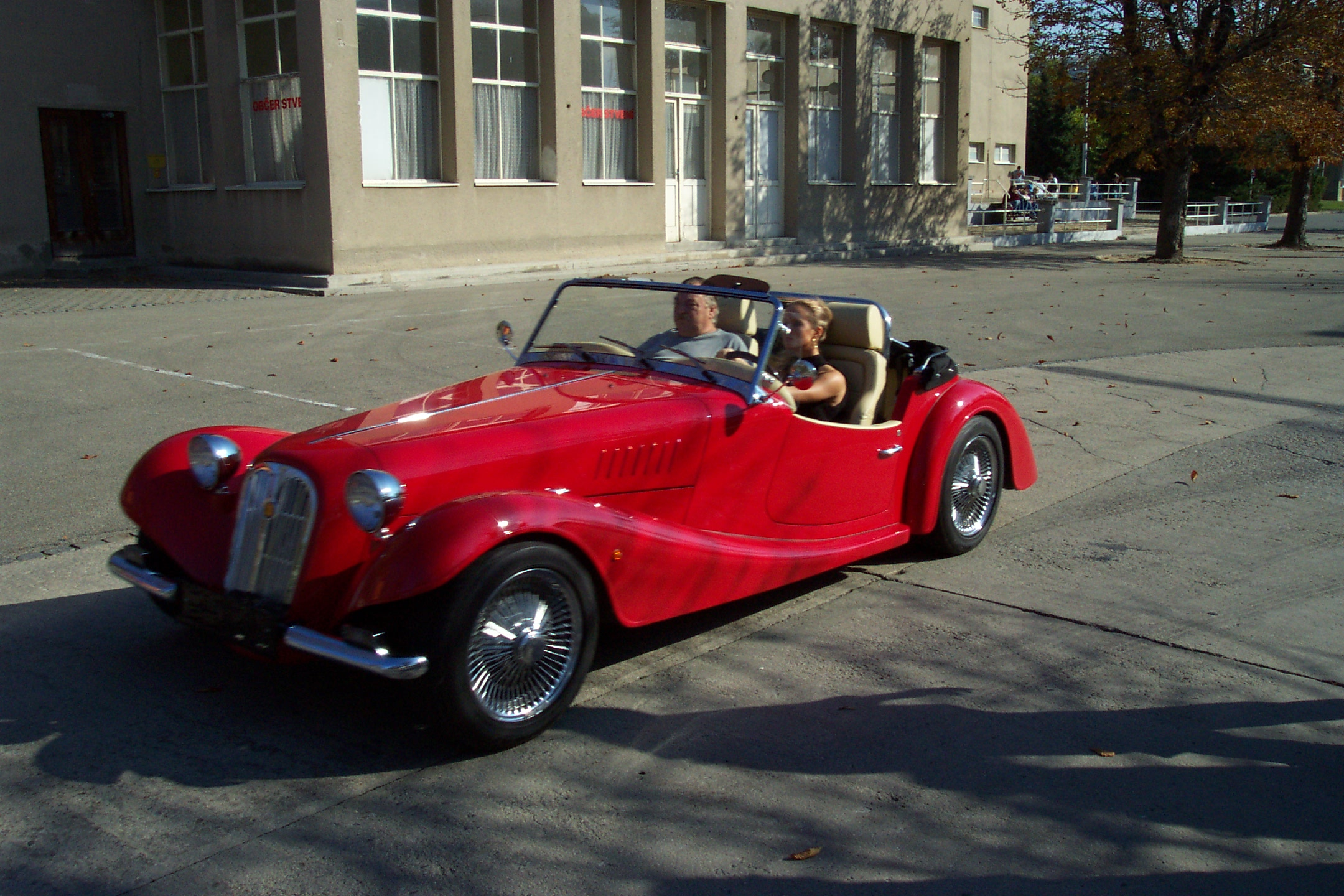 Brno, Invex exhibition, historic vehicle - Výstava Invex v Brně, historický automobil. Gordon roadster